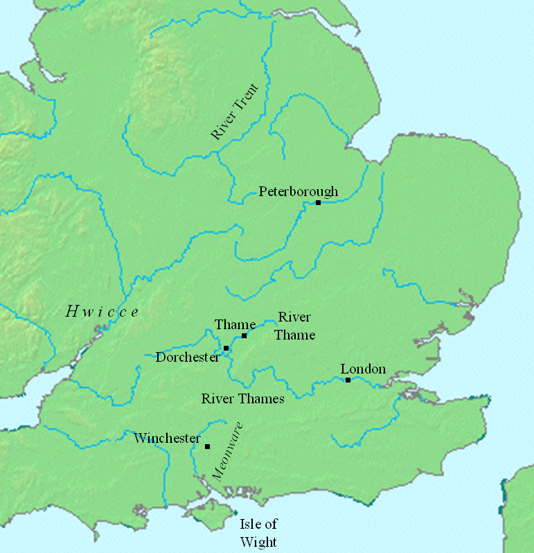 This is a map showing locations relevant to Wulfhere of Mercia. The file was created using DMIS. On that site it is stated that "We do not claim copyright on the images, so you can use them for Wikipedia."